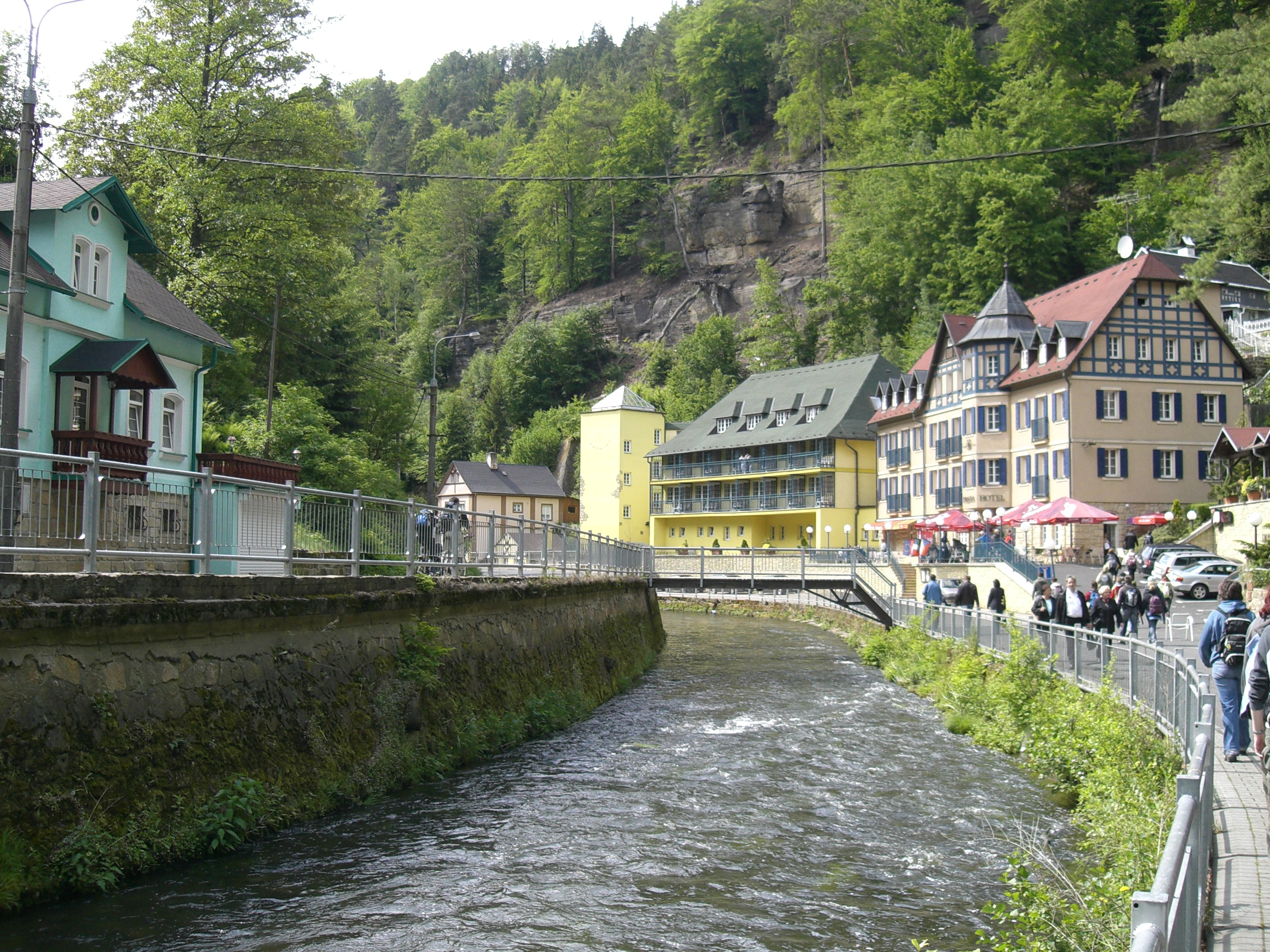 Hřensko village, Czech Republic.